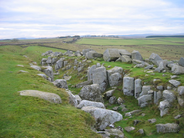 Limestone Corner, Hadrian's Wall Footpath